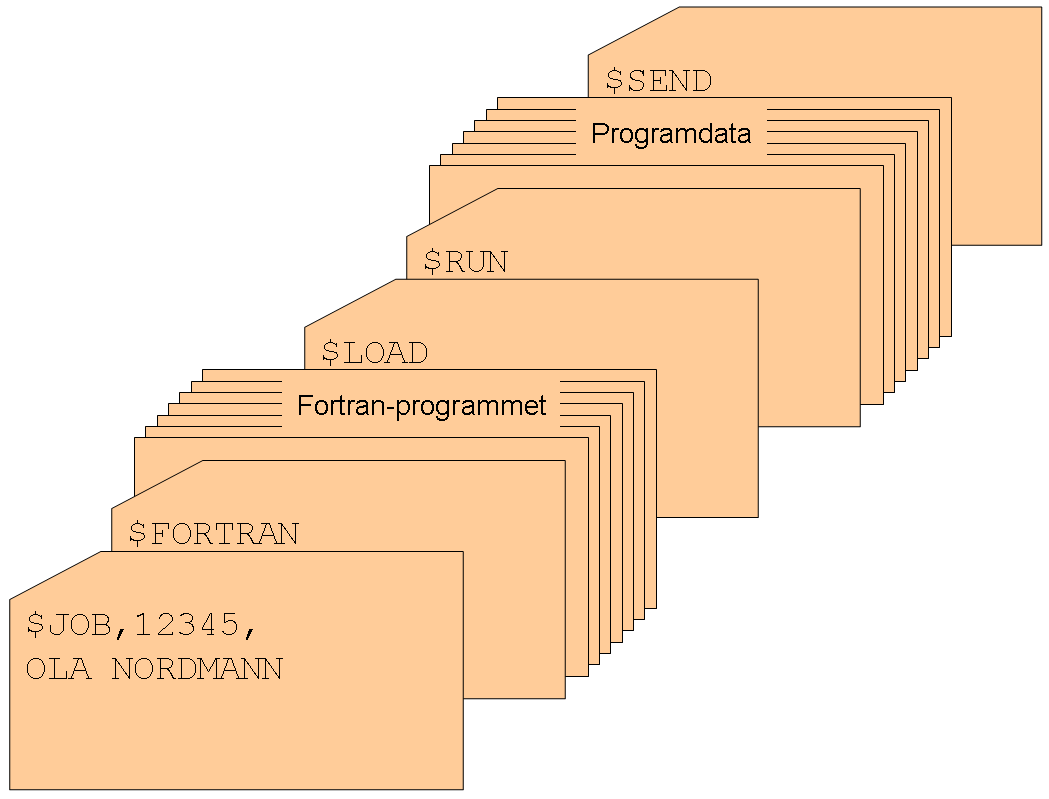 A typical batch job, Norwegian text